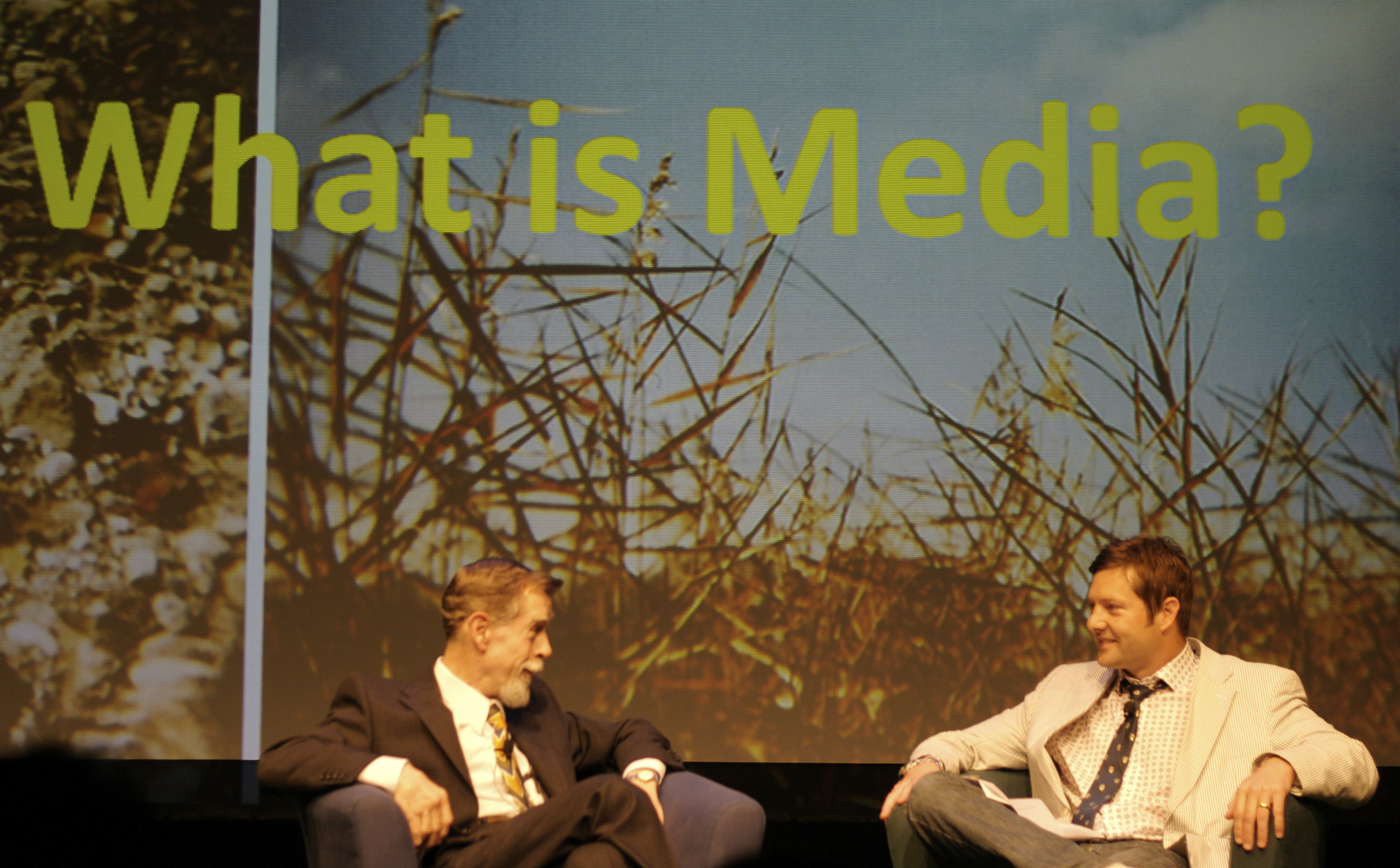 Michael Tippett interviewing Dr. Eric McLuhan, son of Marshall McLuhan, Vancouver 2008